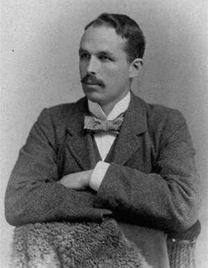 Photograph c. 1890 of Froude Hancock (1865-1933), English rugby player and foxhunter. Photo taken in Cape Town, probably on the "Missionary" rugby tour